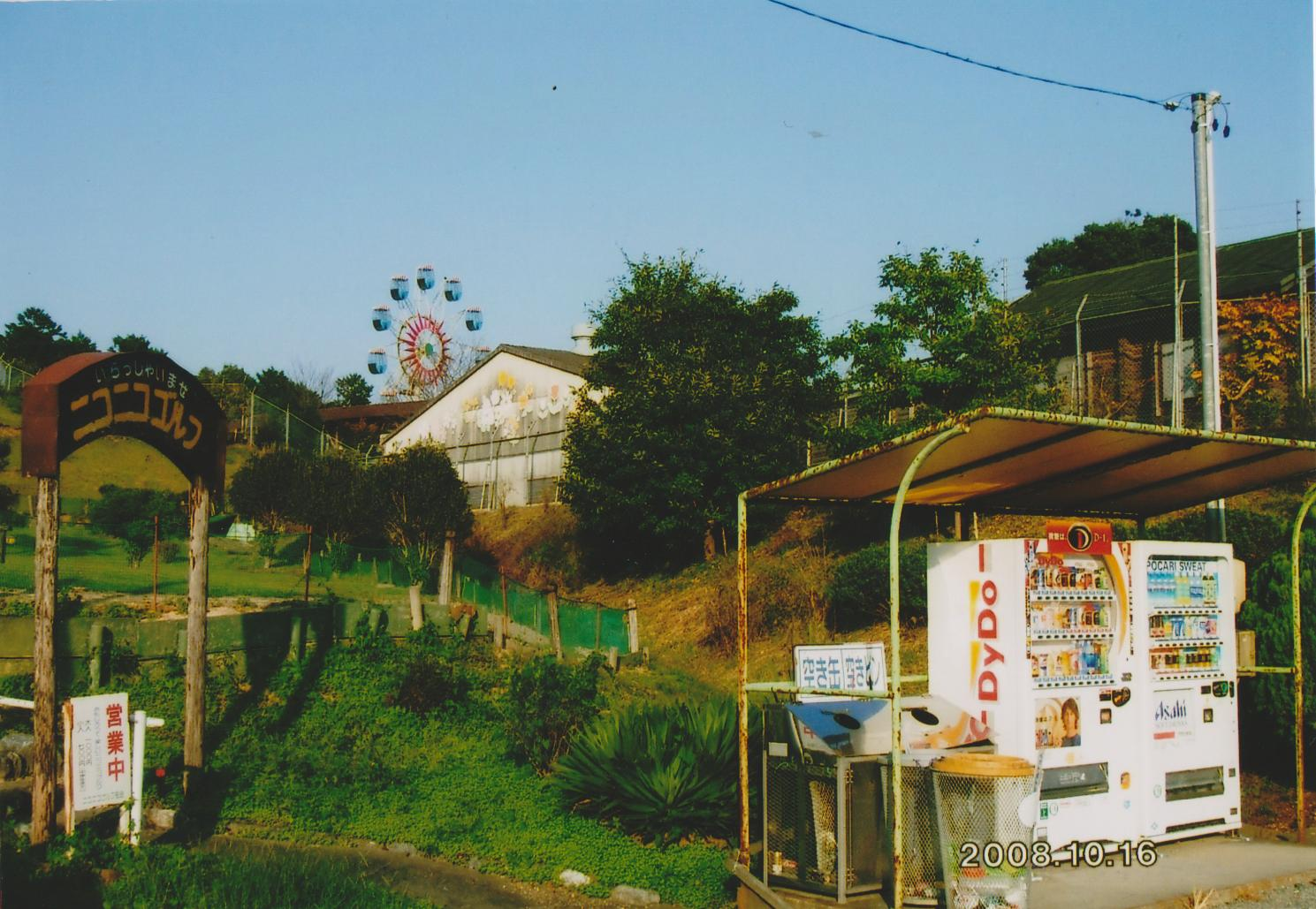 This is a park in Mie,Japan.